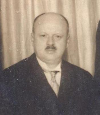 Czech conductor, violinist and pedagog František Stupka, Prague, 23-25.03.1928.